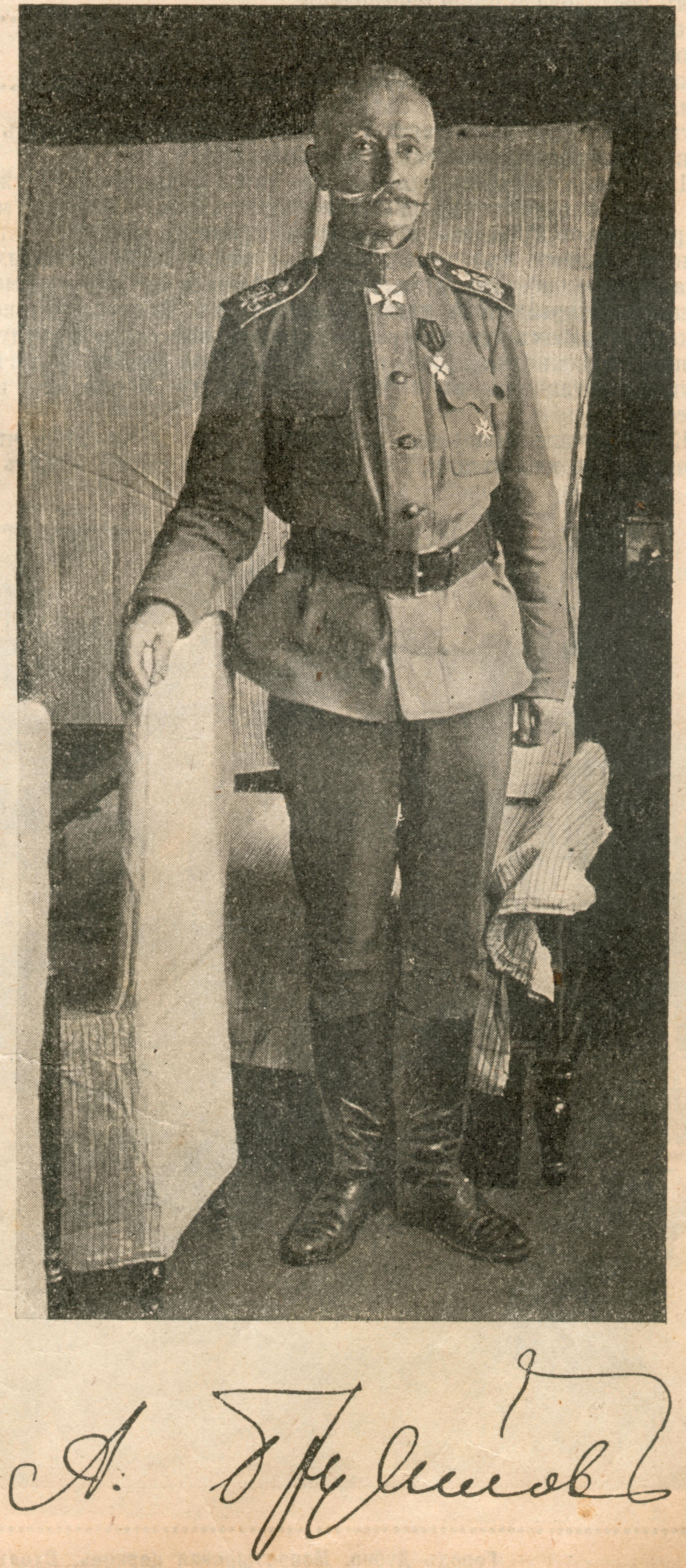 Brusilov Aleksei A (1853-1926)